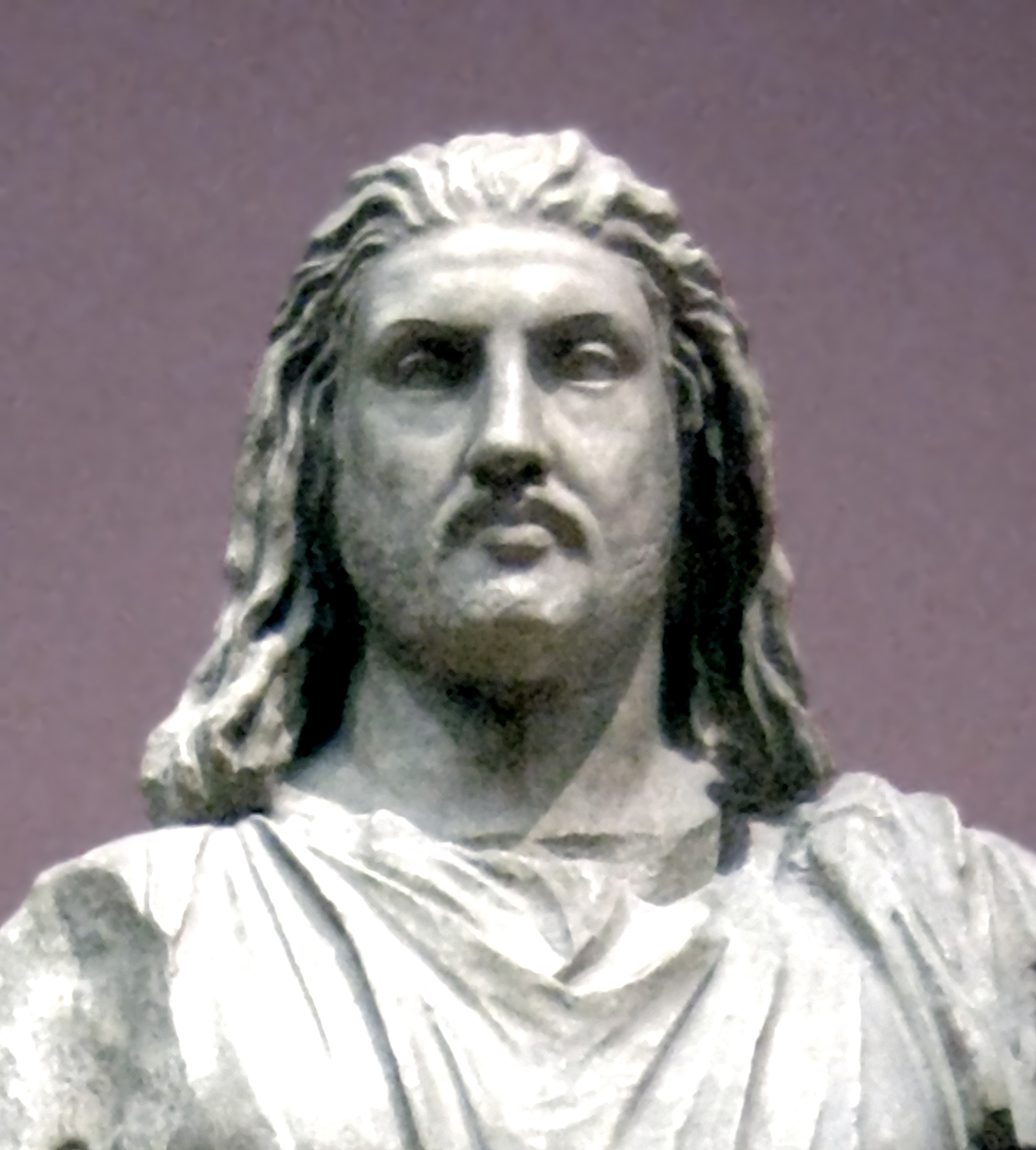 Mausolus portrait